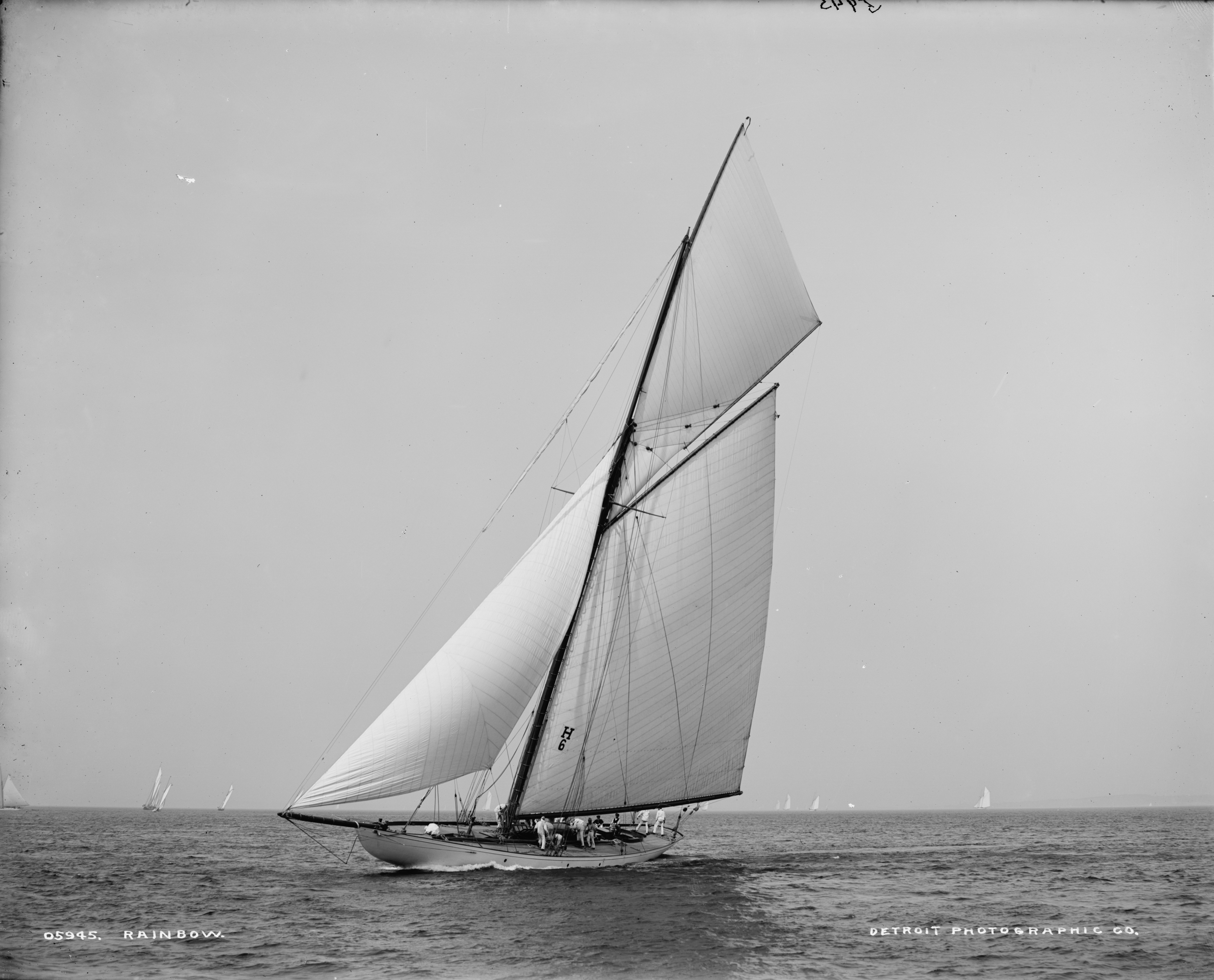 Cornelius Vanderbilt III's New York 70 class yacht Rainbow